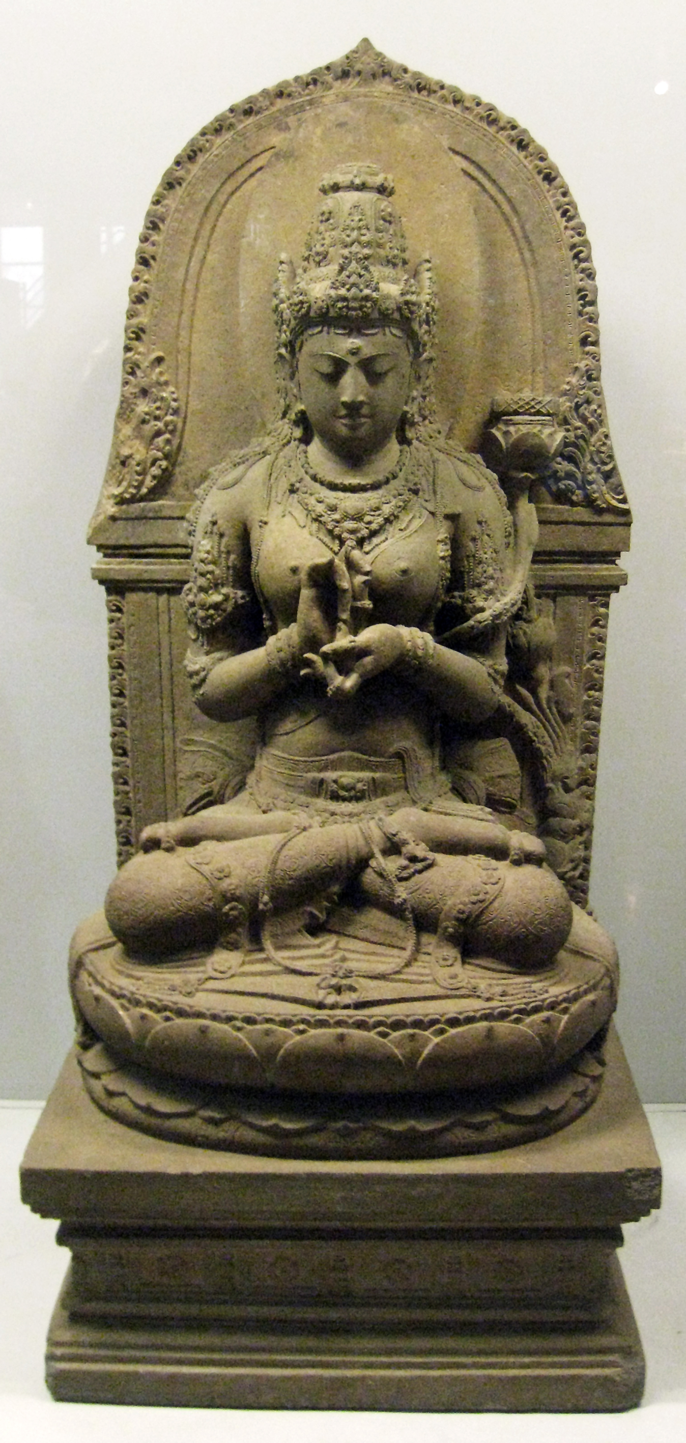 Bodhisattvadevi (female bodhisattva) Prajnaparamita; the buddhist goddess of transcendental wisdom, personified in a statue from 13th century Singhasari East Javanese art. The statue was discovered in Cungkup Putri ruins near Singhasari temple, Singhasari, East Java. According to local beliefs, the statue was made in Ken Dedes likeness. Probably served as her mortuary deified statue. The Prajnaparamita was first seen in 1818 or 1819 by the Dutch colonial official D. Monnereau. In 1820 Monnereau gave the statue to C.G.C. Reinwardt, who took it to Holland where it eventually came to be deposited in the Rijksmuseum voor Volkenkunde in Leiden. Prajnaparamita is a goddess of high standing in Mahayana tantric Buddhism; she is considered the sakti, or consort, of the highest Buddha (in the Buddhist pantheon known as vajradhara), she symbolizes perfect knowledge. As with many statues from East Java, this one is thought to be the “portrait statue” of Rajapatni Gayatri queen, the wife of King Kertarajasa (the first King of Majapahit Kingdom), grandmother of Hayam Wuruk. In January 1978 the Rijksmuseum voor Volkenkunde (National Museum of Ethnology) returned the statue to Indonesia, where it was placed in the Museum Nasional Indonesia. Today the statue is displayed in the second floor of National Museum of Indonesia, Jakarta.